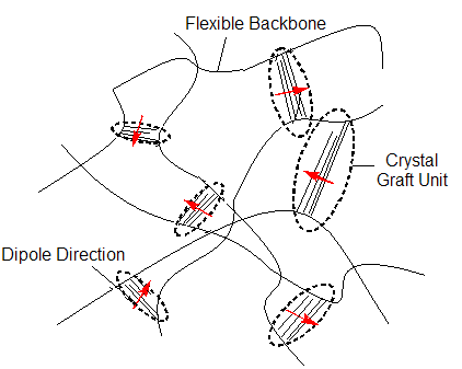 Made in paint from Smart Mater. Struct. 13 (2004) 1407–1413